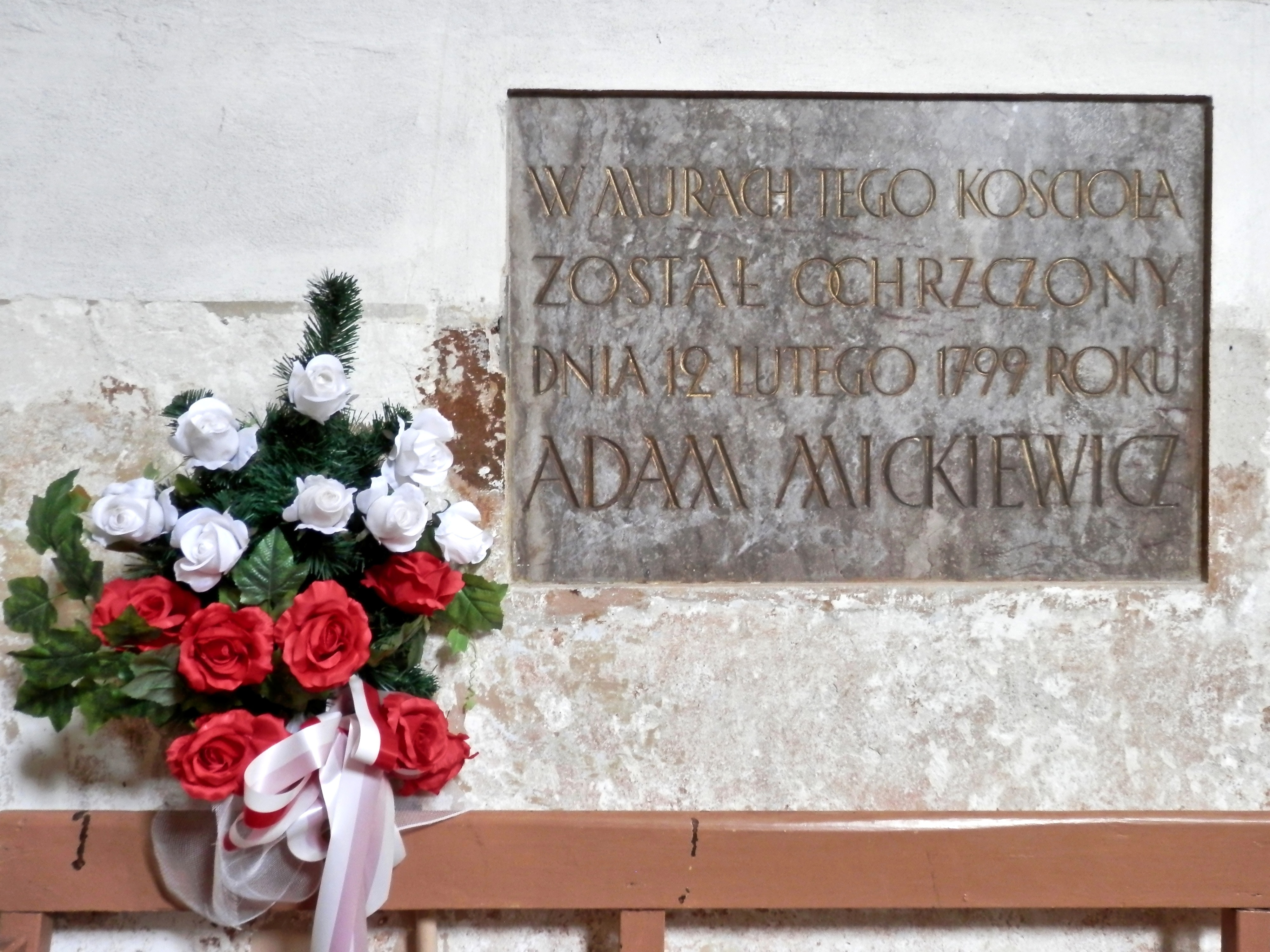 Transfiguration Roman Catholic Church in Navahrudak (XVIII century)